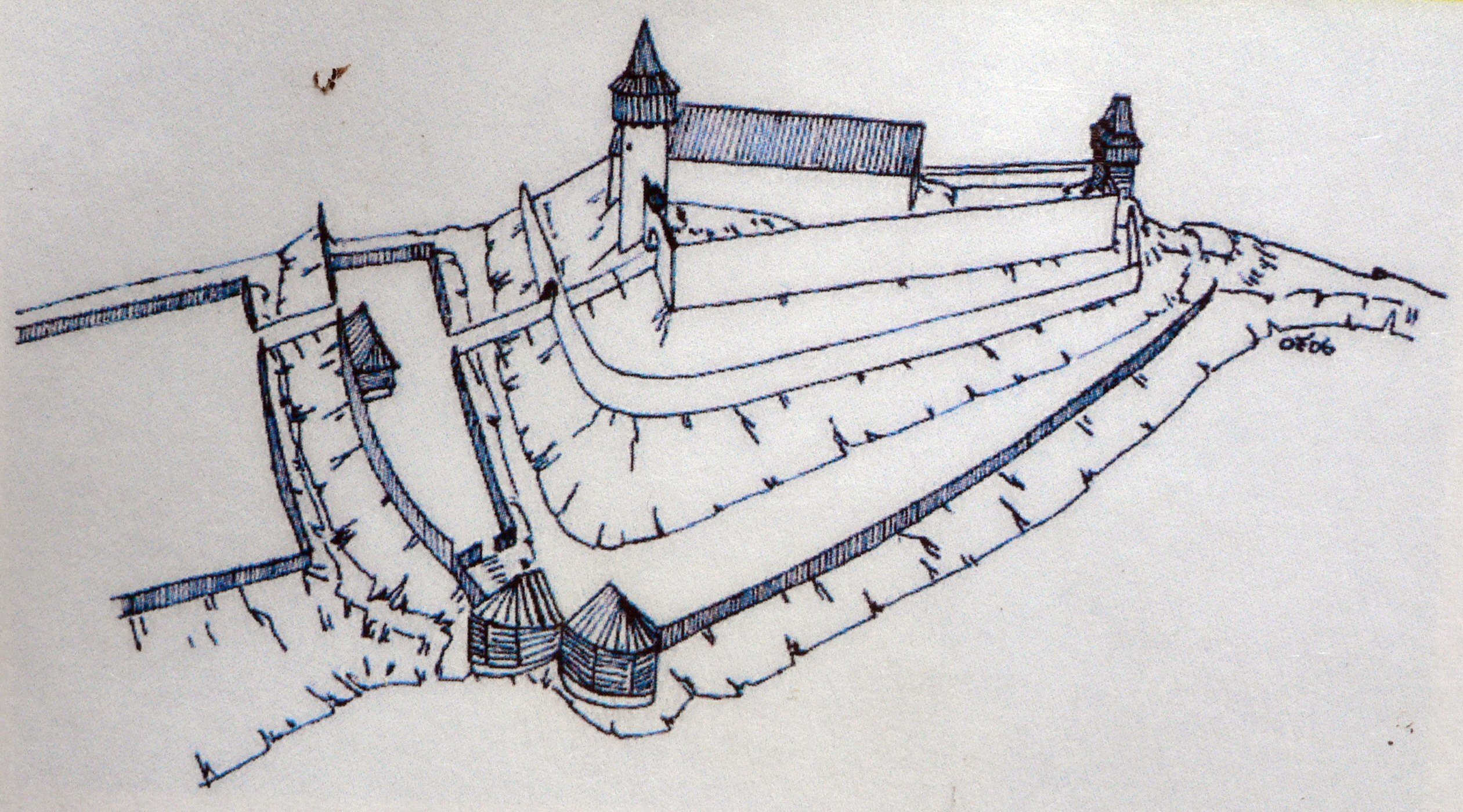 Former shape of castle Hluboký in Hlubočky.